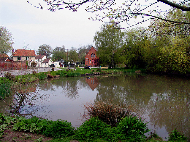 The village pond, East Ilsley, Berkshire, England. The pond is situated in the south western section of the square on the small circular route in the middle of the village. The picture was taken from the south side of the pond.